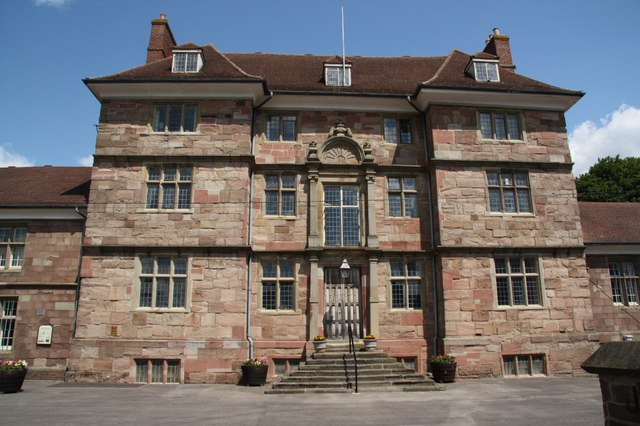 Great Castle House Completed in 1673 by the 3rd Marquis of Worcester, later Assize Court, Judge's Lodgings and Girl's School, it has been the Royal Monmouth Royal Engineers (Militia) HQ since the mid 19th century